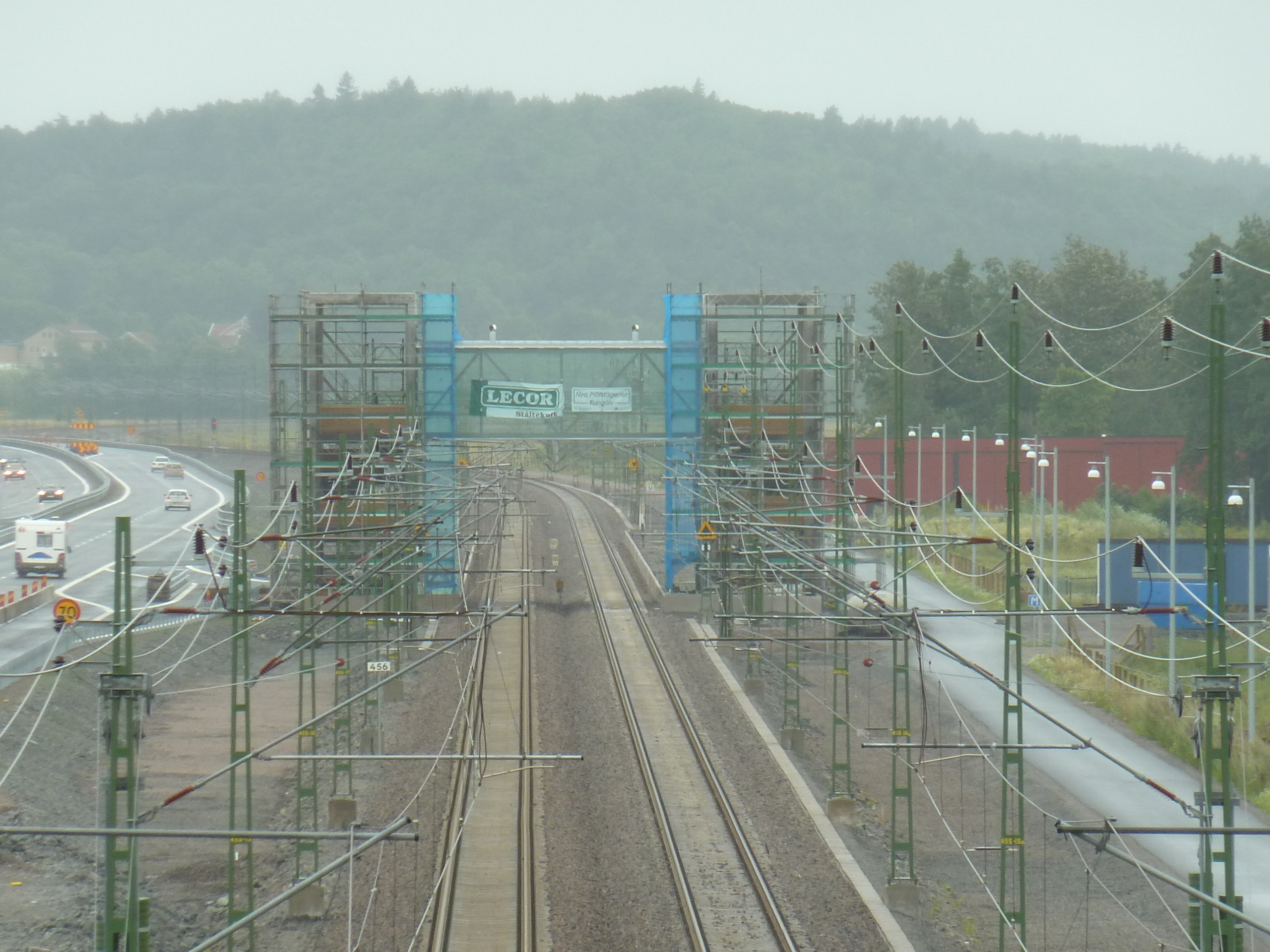 The newbuilt railway and the local train station under construction in Nödinge, Ale, Sweden